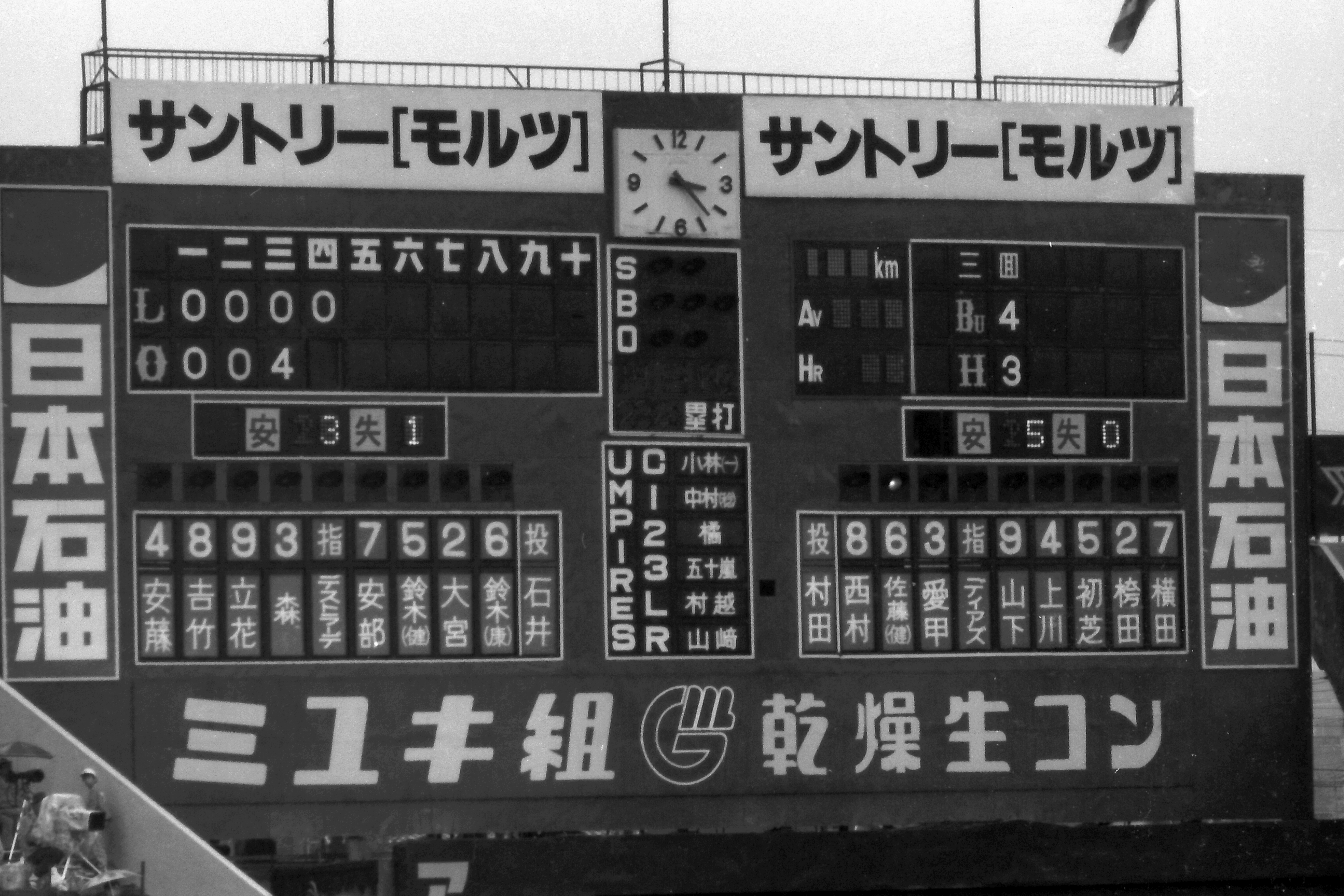 Kawasaki stadium on 13 October 1990 when Choji Murata played his last game as a professional baseball player